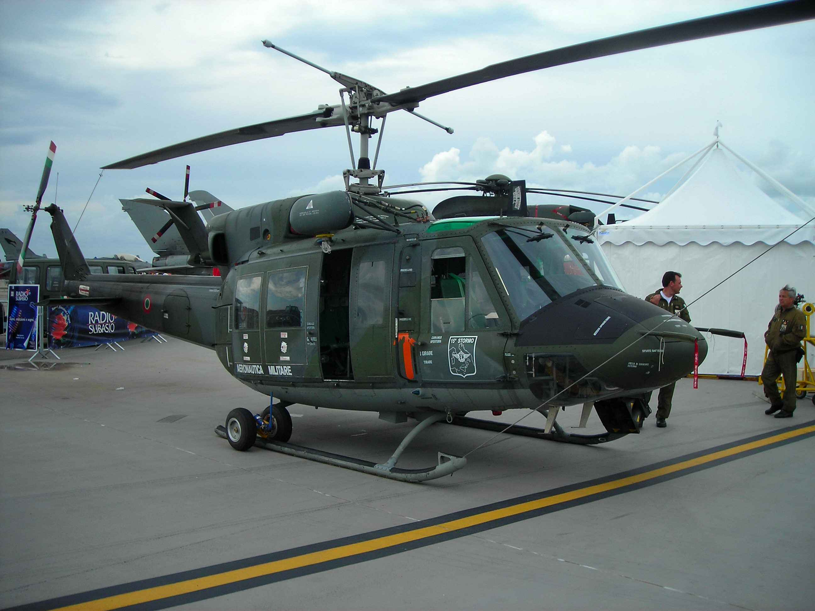 AB.212 of Italian Air Force. Picture taken during "Giornata Azzurra" 2006 (Italian Air Force airshow) at Pratica di Mare AFB, Italy.